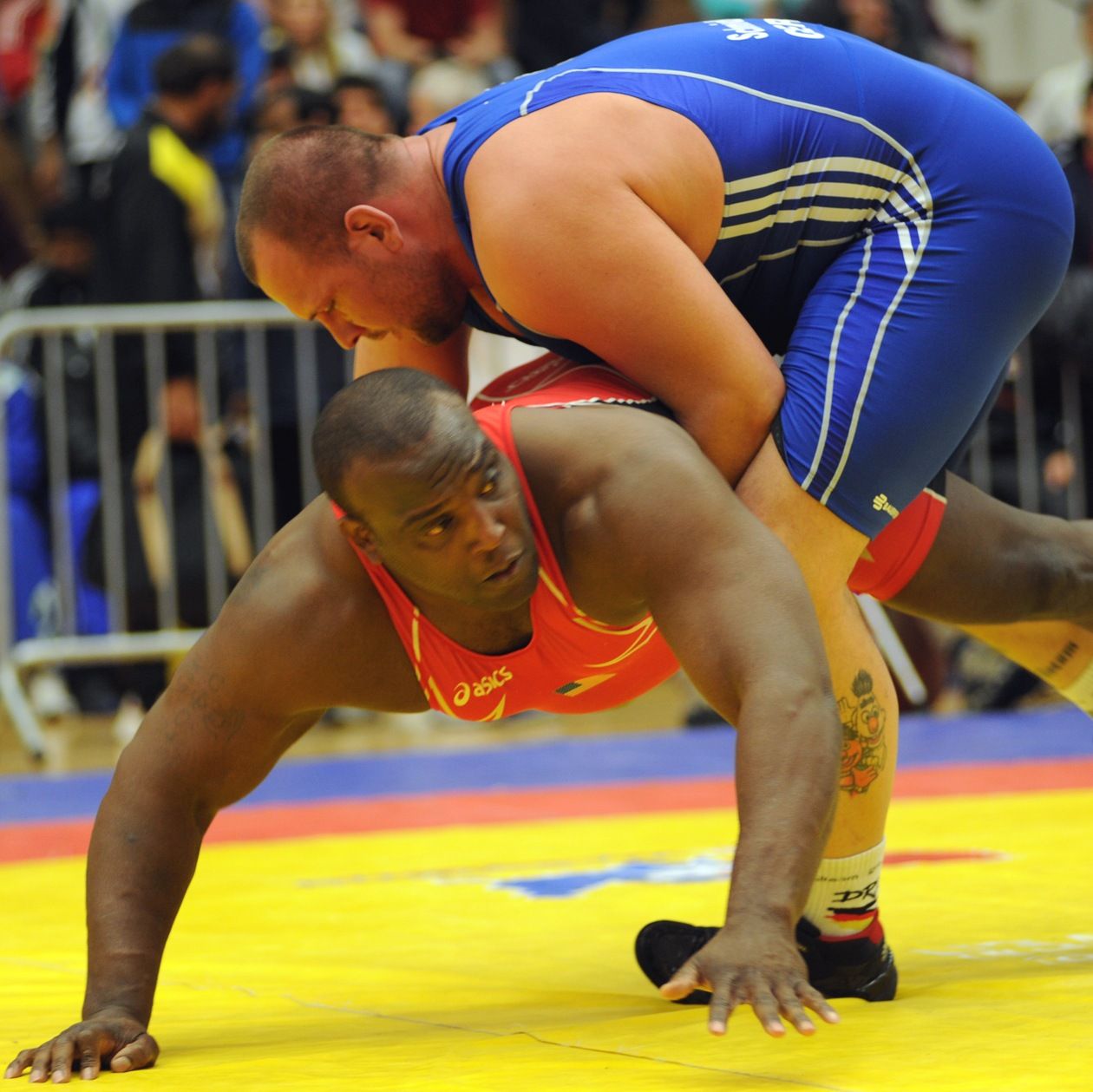 U.S. Army World Class Athlete Program Greco-Roman wrestler Sgt. 1st Class Dremiel Byers successfully defends the lift of Germany's Nico Schmidt en route to Byers' event-record sixth heavyweight championship at the Dave Schultz Memorial International wrestling tournament Feb. 4 at the U.S. Olympic Training Center in Colorado Springs, Colo. U.S. Army photo by Tim Hipps, IMCOM Public Affairs